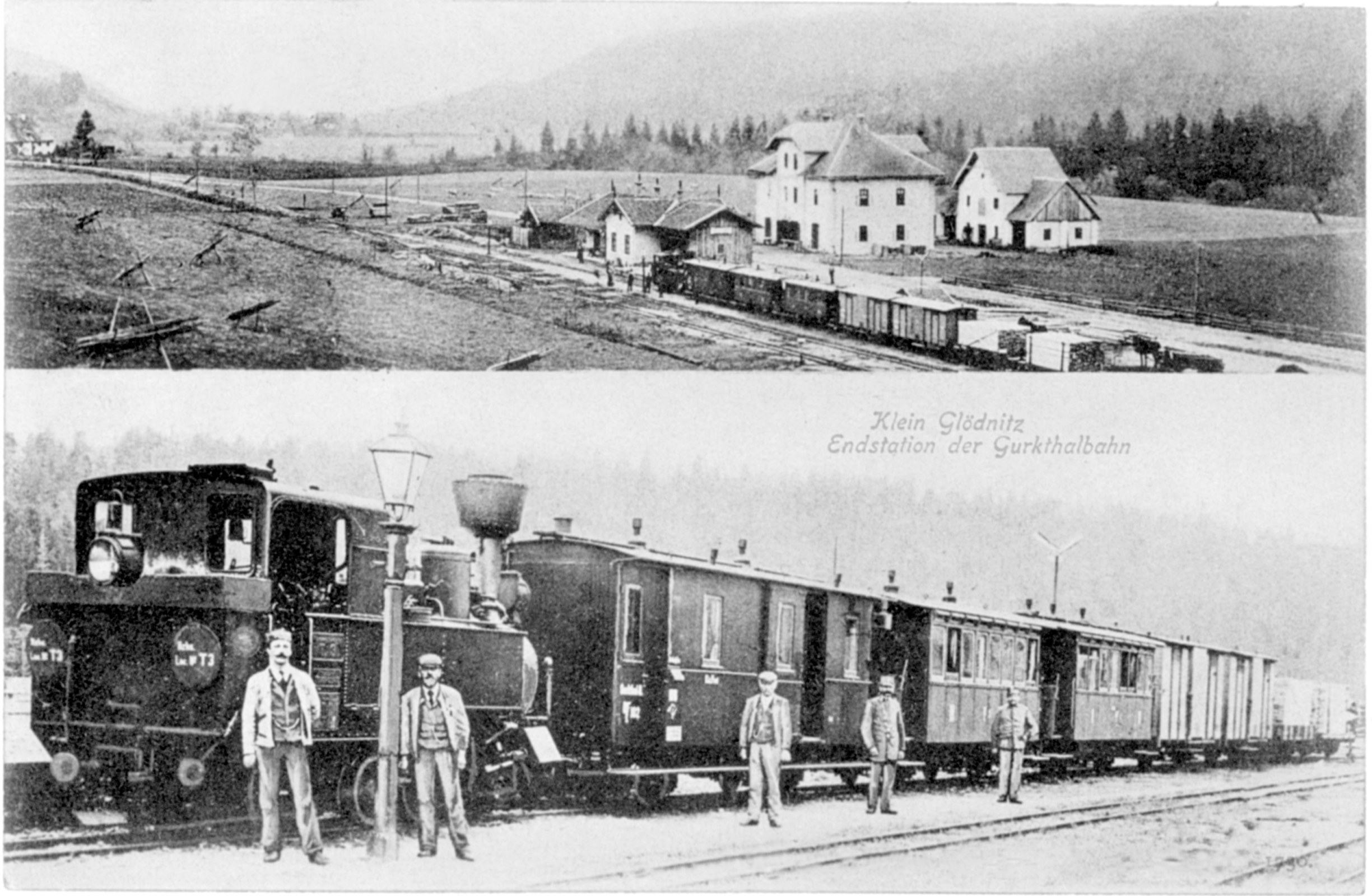 Klein Glödnitz railway station and a train of the Gurktalbahn in Carinthia with engine T.3